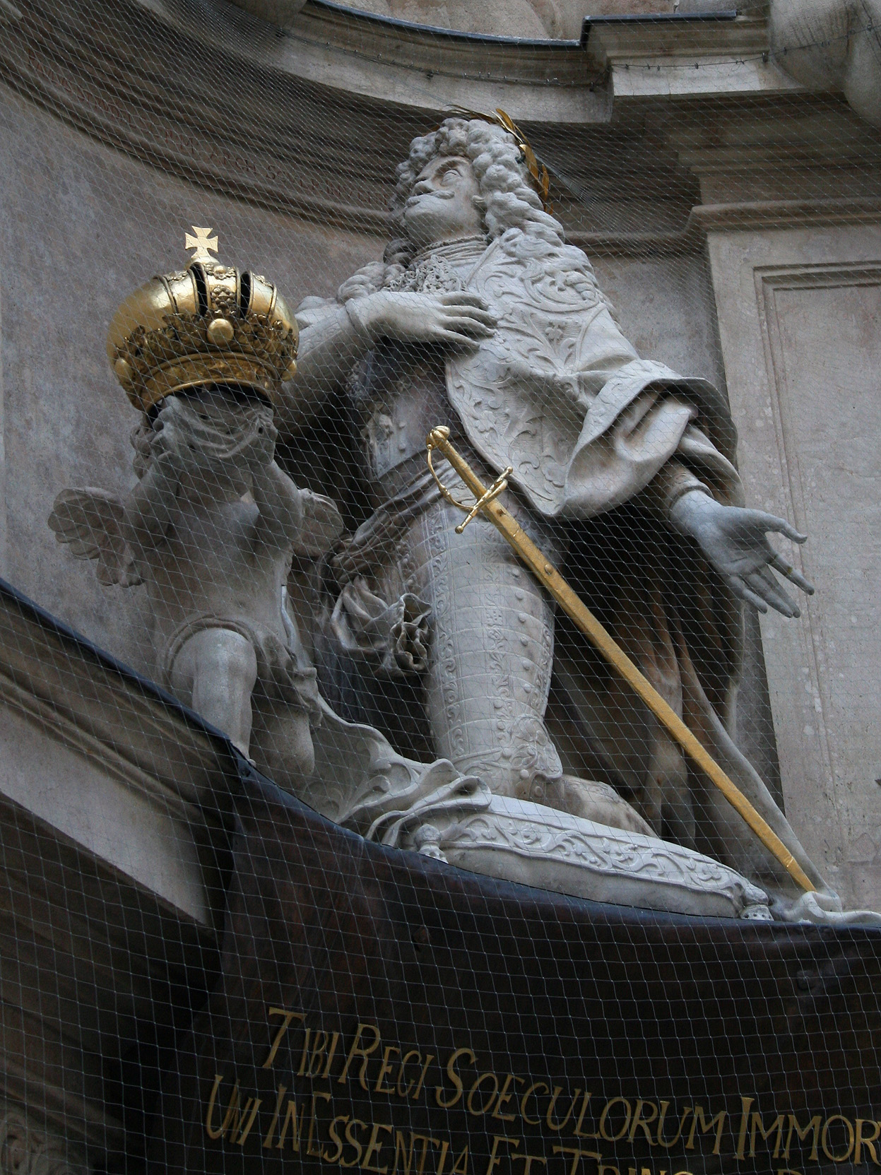 Sculpture of emperor Leopold I. at the plague column in Vienna